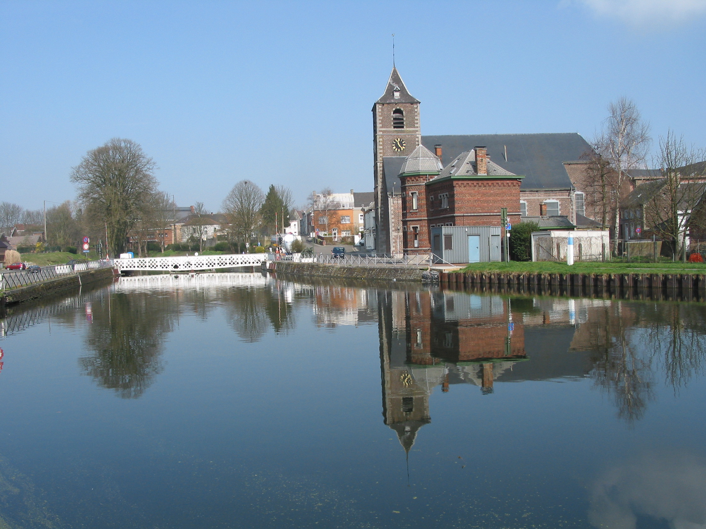 Houdeng-Aimeries (Belgium), the « du Centre » canal, the swing bridge and the St. John the Baptist church (1779).